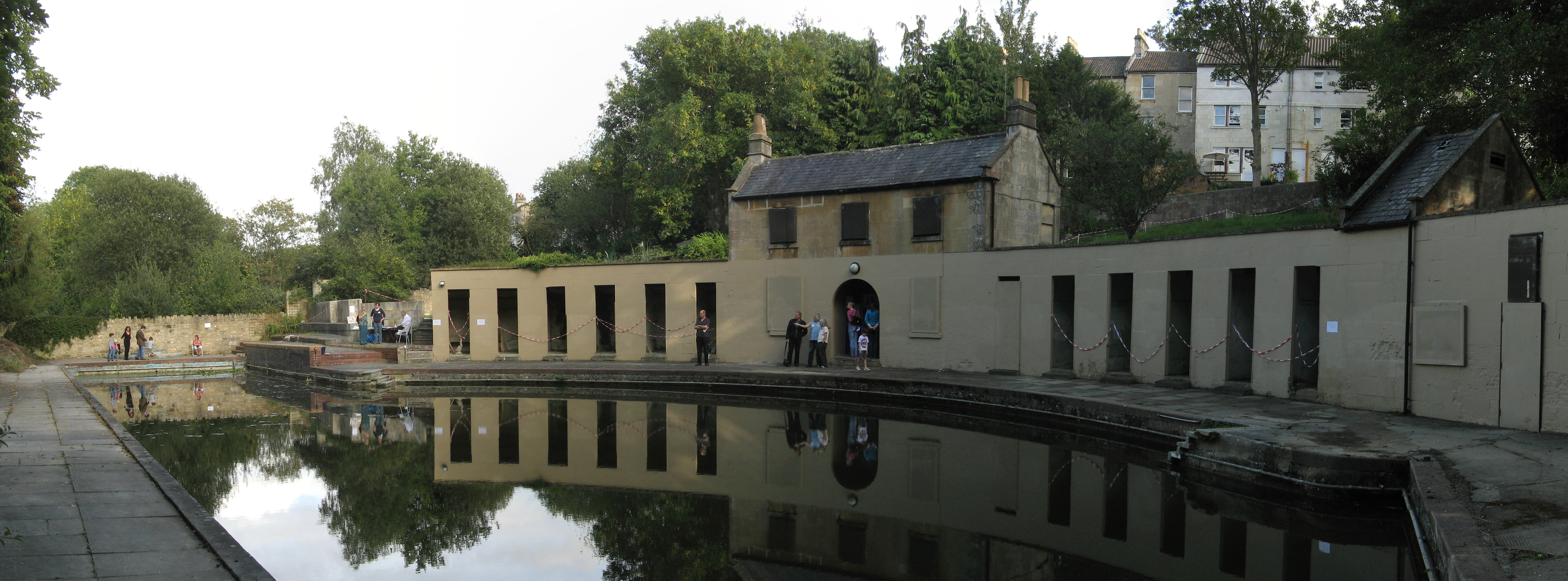 Cleveland Pools, Bath, from river side of lower pool.